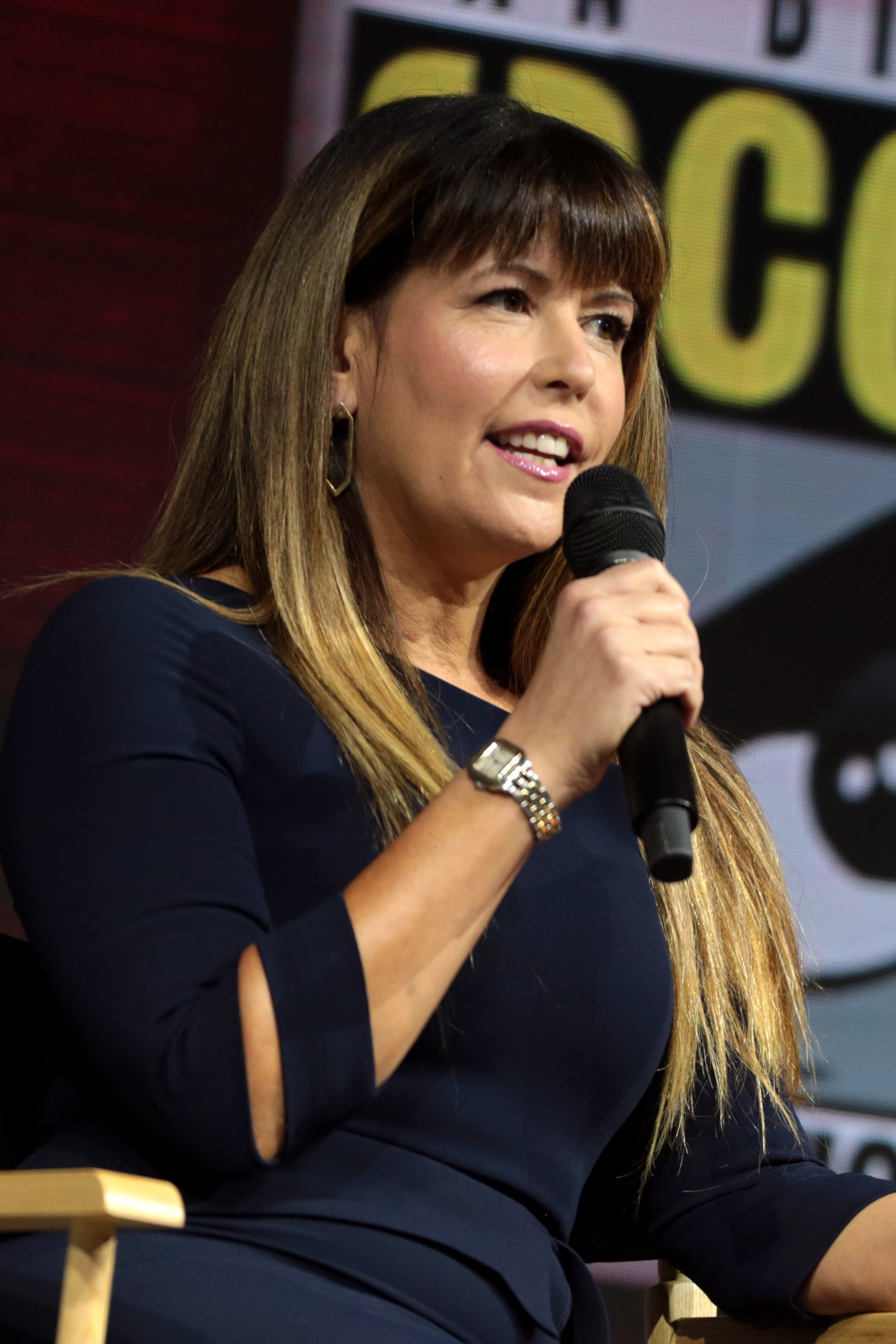 Patty Jenkins and Chris Pine speaking at the 2018 San Diego Comic Con International, for "Wonder Woman 1984", at the San Diego Convention Center in San Diego, California.